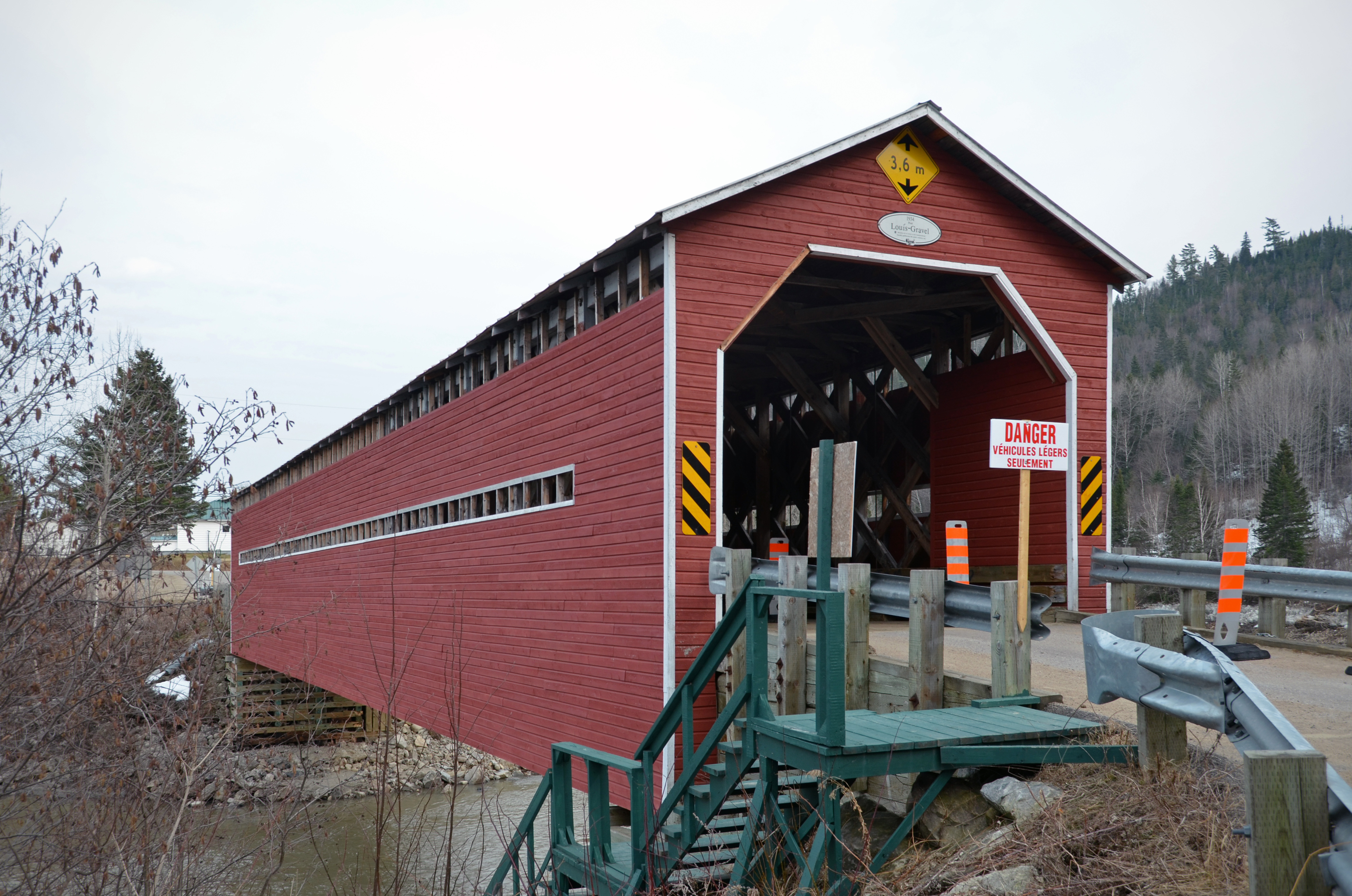 Louis Gravel covered bridge - Sacré-Coeur, Côte-Nord, Québec, Canada